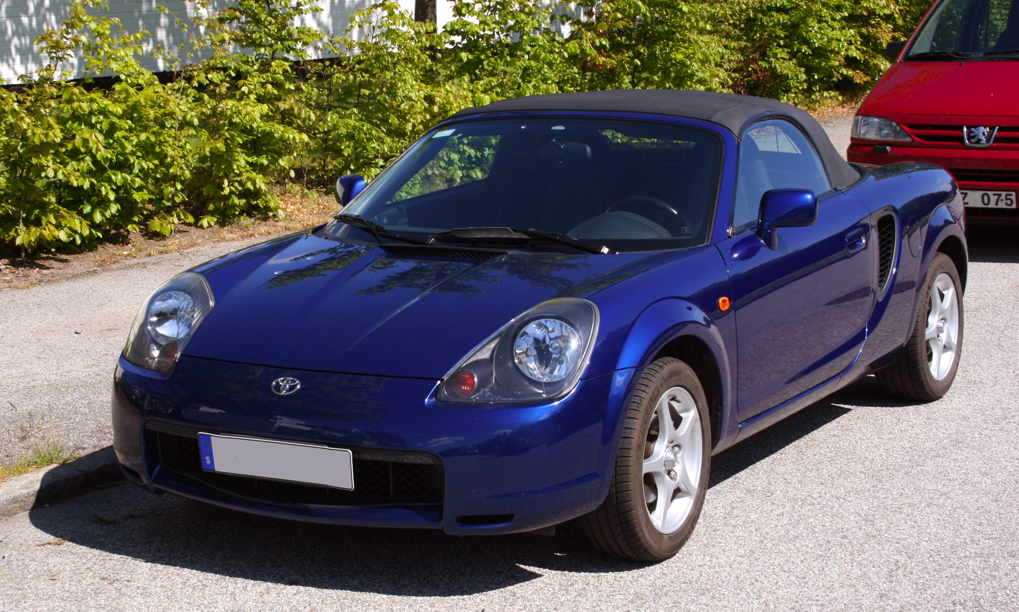 Toyota MR2